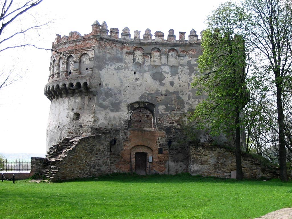 The New Tower of the Ostroh Castle in western Ukraine.